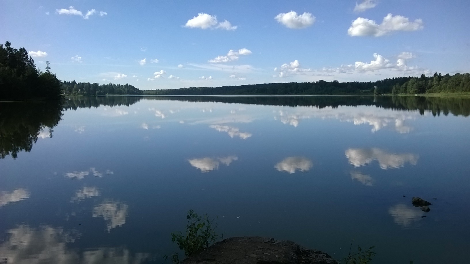 View from Fjällbo Tuusula Finland